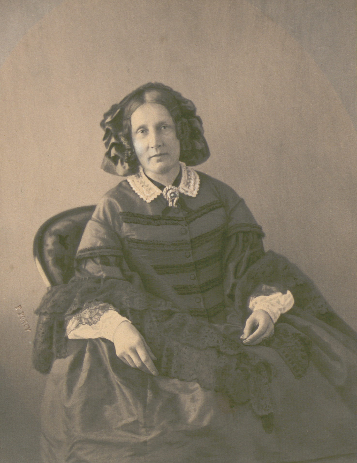 Swiss educator and translator Adèle de Pierre, c. 1850. Photograph by François Poncy. Bibliothèque publique et universitaire de Neuchâtel, Fonds Famille Wavre, FWAV-108-2.1.